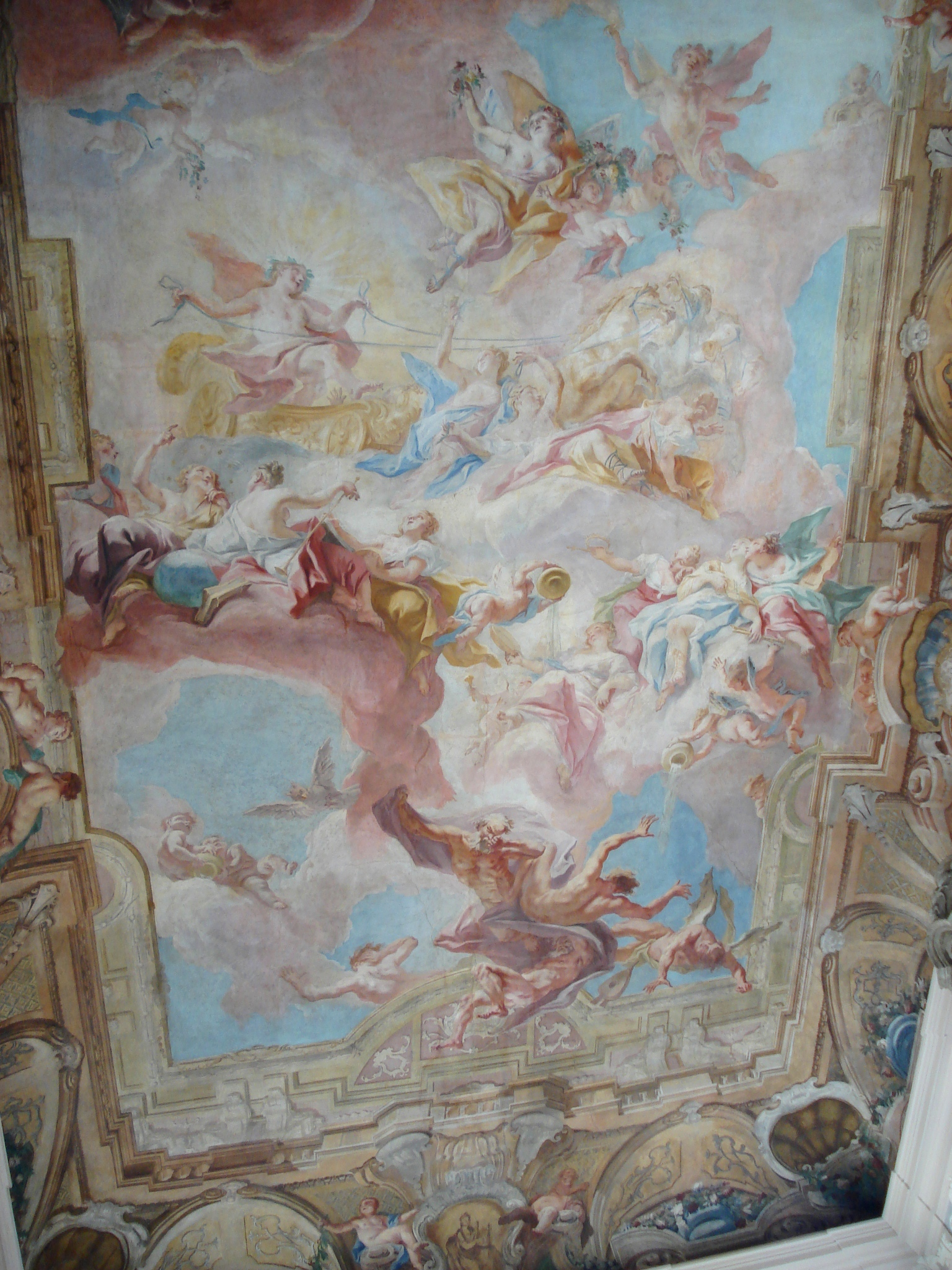 Clam-Gallas palace in Prague - staircase's ceiling